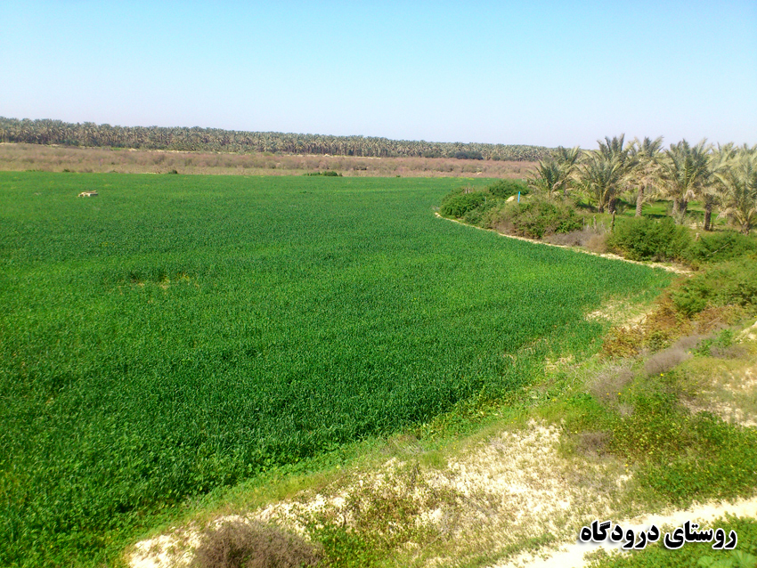 Farm Doroudgah